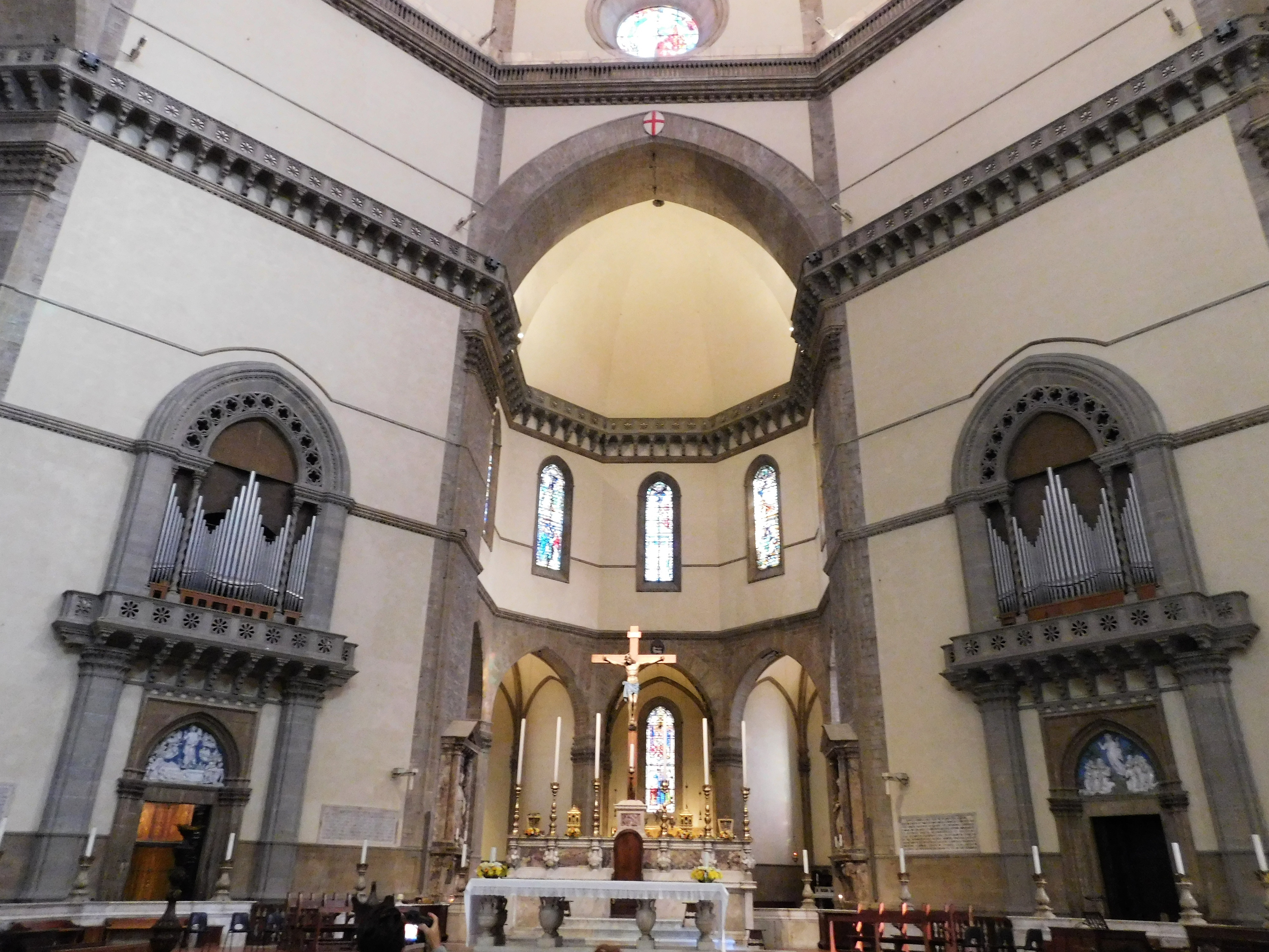 Florence, the Cathedral of Santa Maria del Fiore